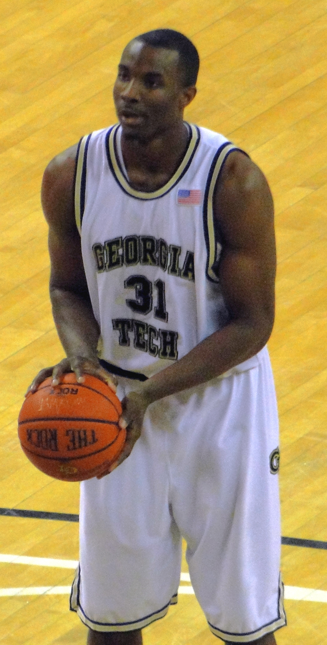 Gani Lawal during NCAA basketball game.